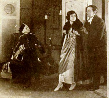 Still with Wesley Barry, Marjorie Daw, and Matt Moore for the American film Don't Ever Marry (1920), cropped, used in an ad for the film on page 117 of the June 1920 Motion Picture Magazine.